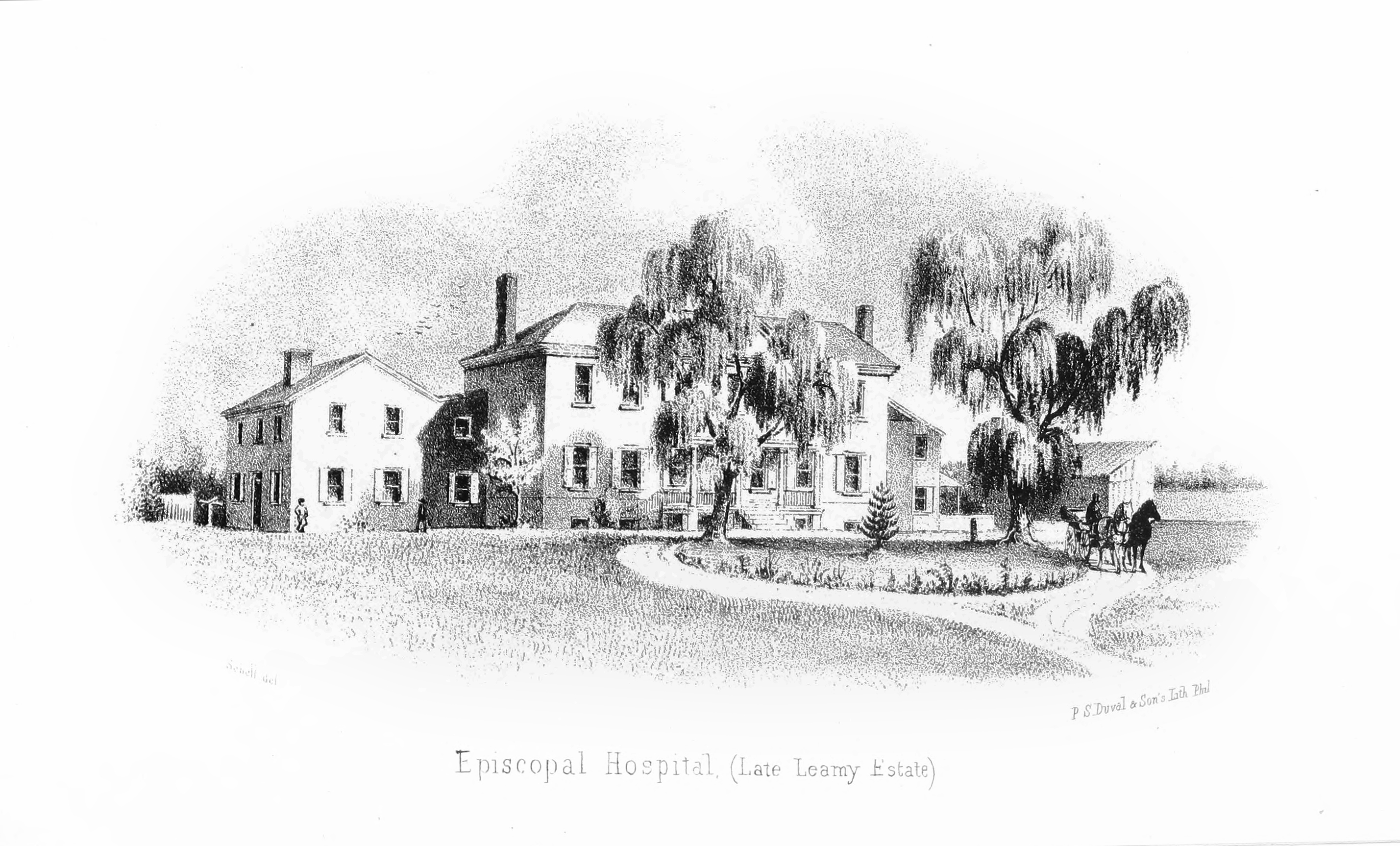 John Leamy's mansion, called Tusculum, at the corner of Front Street and Lehigh Avenue, Philadelphia. Donated by his children for use as the Episcopal Hospital in 1852, and demolished as part of the hospital's expansion.